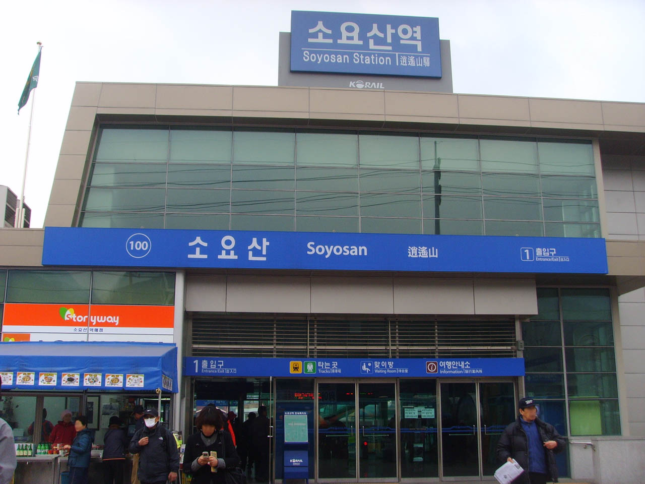 Soyosan Station (Gyeongwon Line)